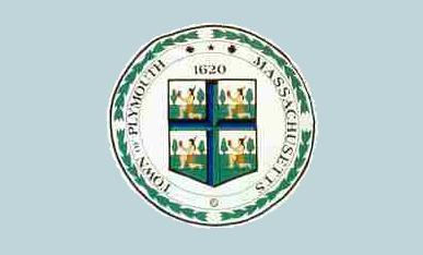 The official flag of the town of Plymouth, MA. The seal at the center of the flag was taken from Image:Plymouth-Flag.jpg.